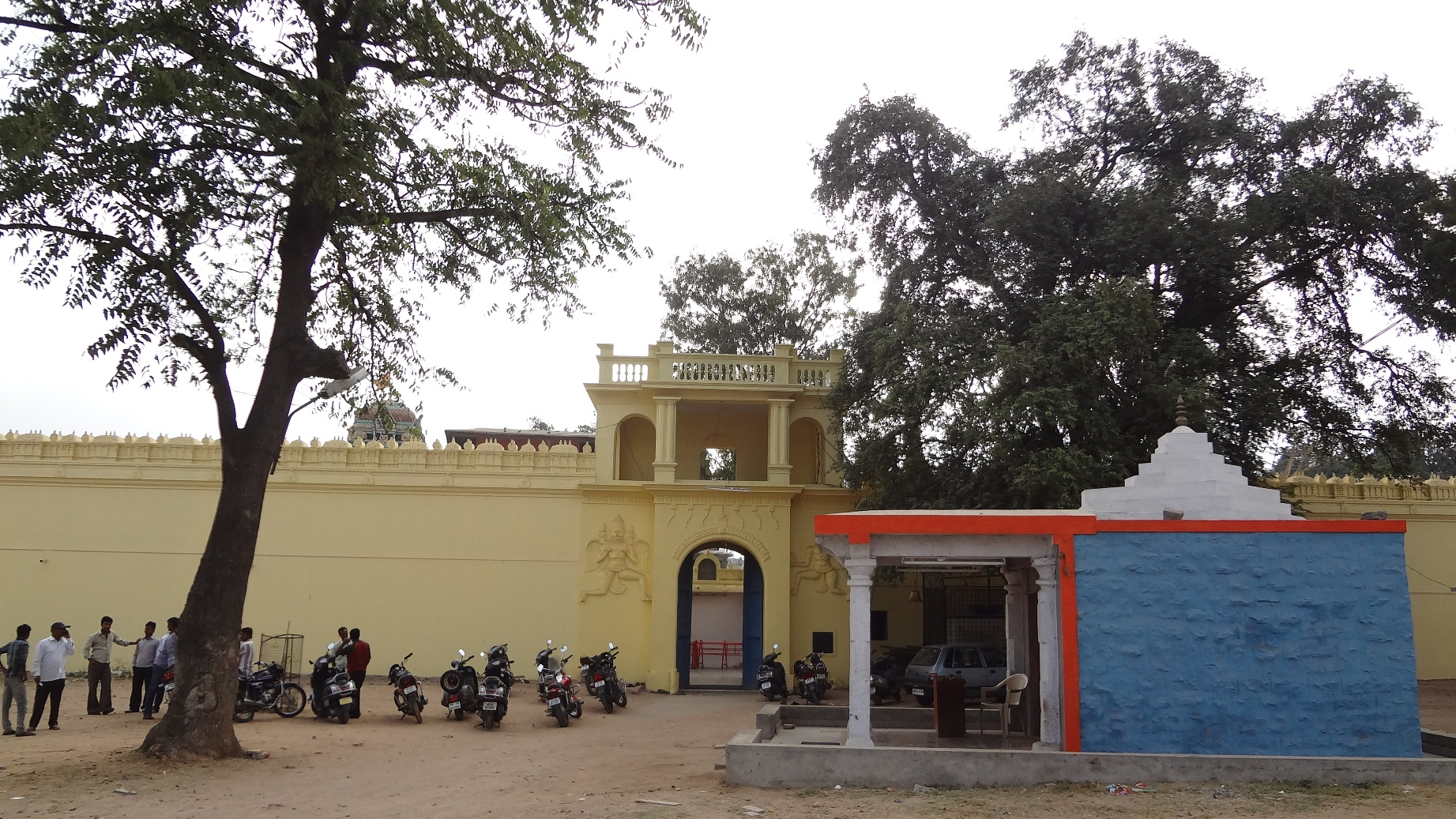 Rear entrance for Karmanghat Hanuman temple